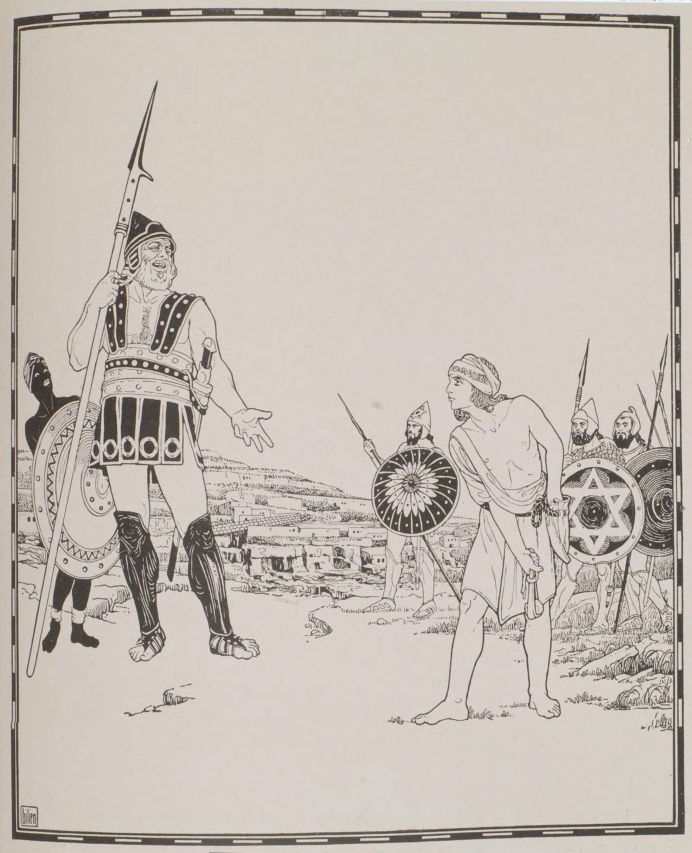 David and Goliath.